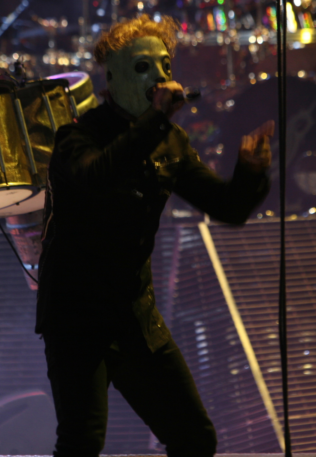 Vocalist Corey Taylor of Slipknot at the mayhem festival 2008.